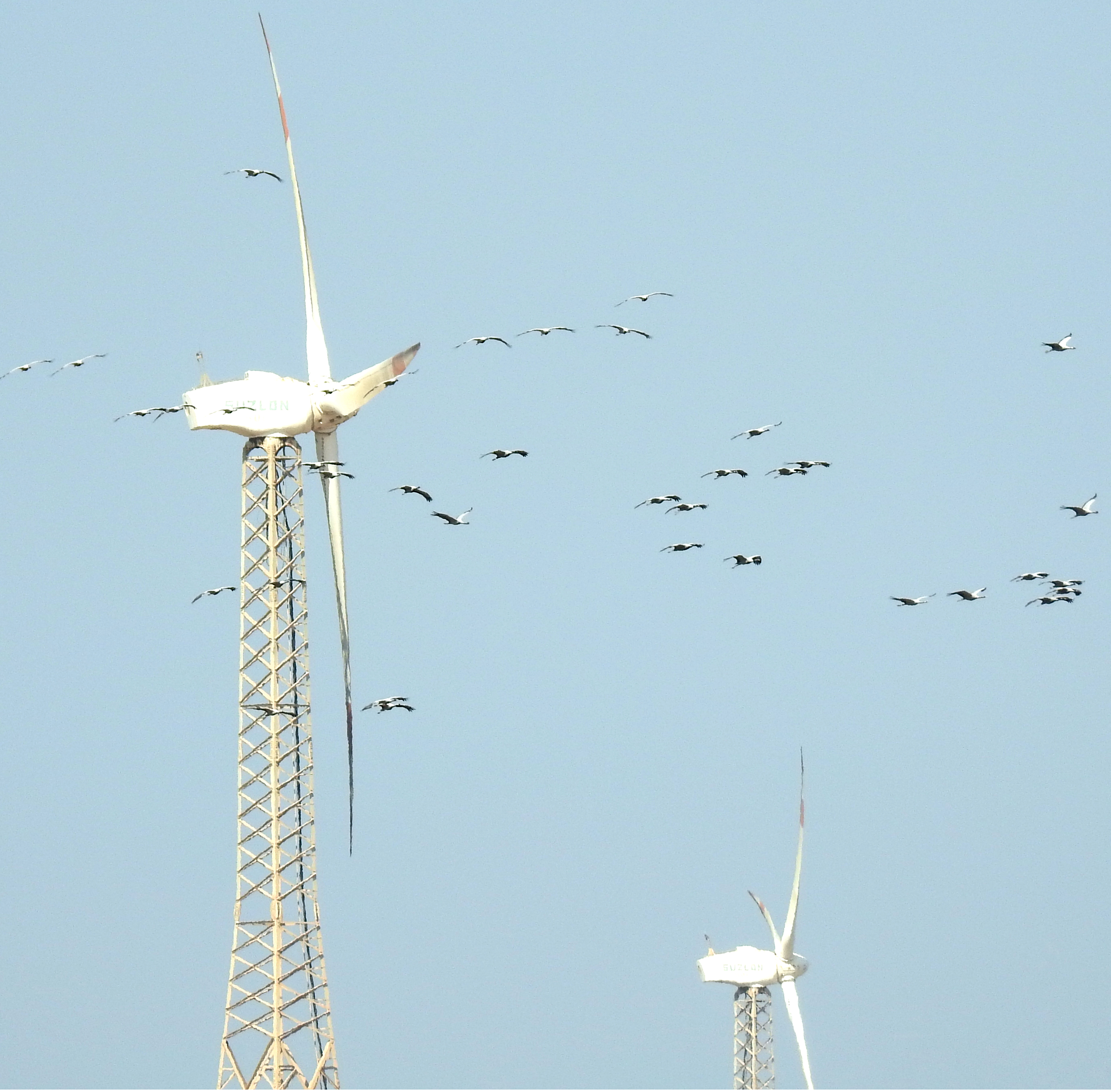 Demoiselle Cranes Grus virgo and Wind Mills. Photo taken by Dr. Raju Kasambe at Porbandar, Gujarat